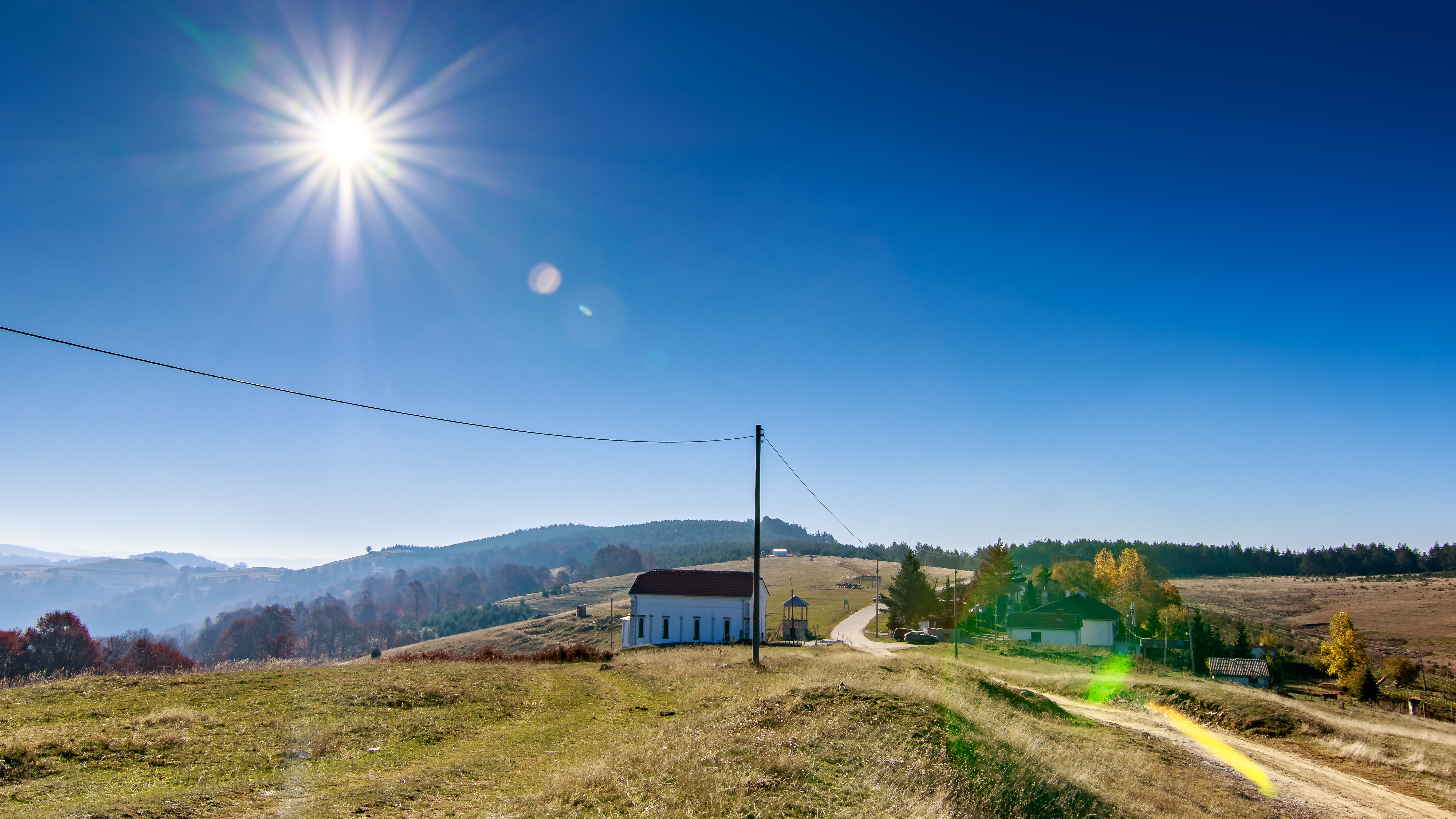 View of the village German